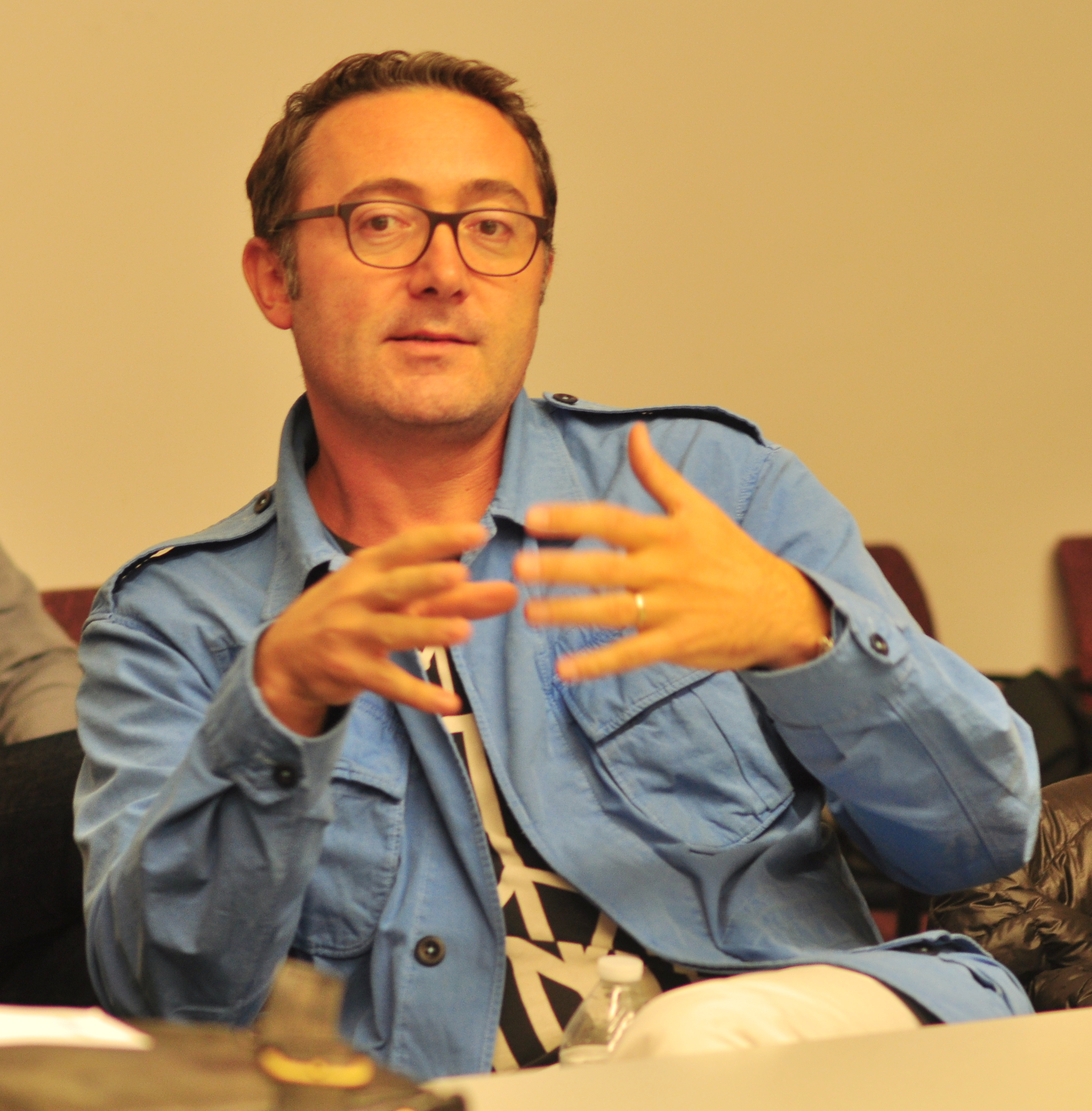 Romanian film director Tudor Giorgiu speaking at a round table on the New Romanian Cinema, at Thomson Hall on the University of Washington campus, an Ellison Center event in association with Romanian Film Festival Seattle.